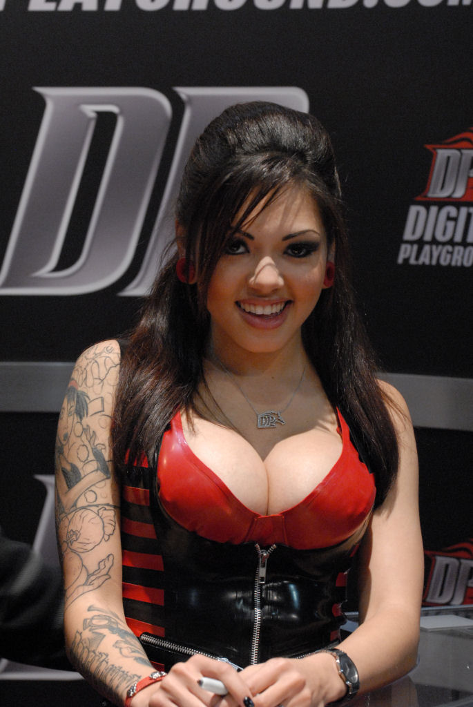 Adrianna Lynn at AVN Adult Entertainment Expo 2008.